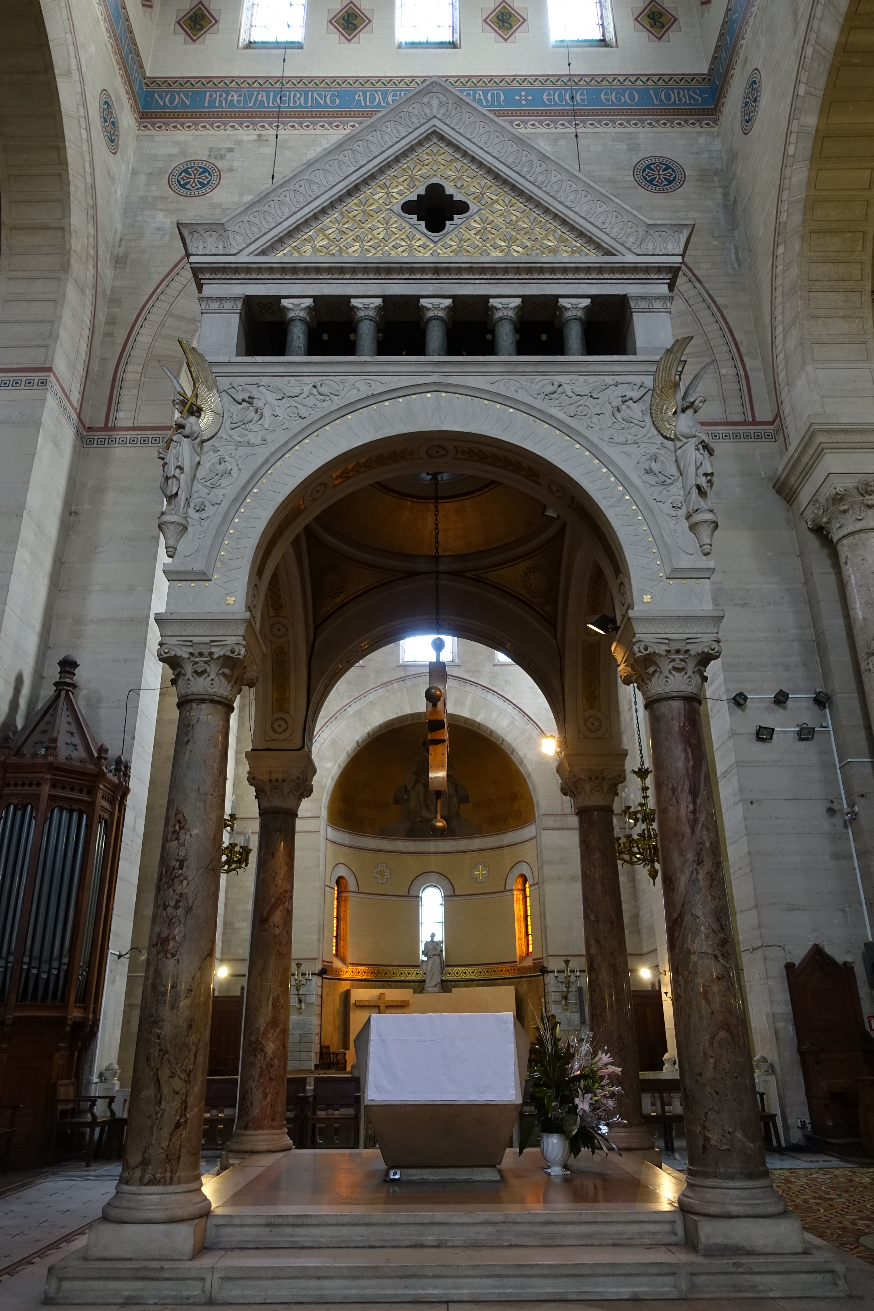 Saint-Pierre-de-Montrouge, a 19th-century church in Paris, in the Petit-Montrouge quarter of the XIVe arrondissement. Address: 82 Avenue du Général Leclerc, 75014 Paris, France.